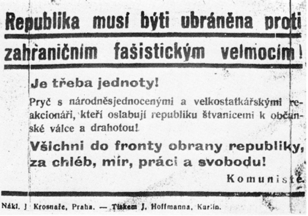 Leaflet Communist Party of Czechoslovakia against fascist aggression of Germany